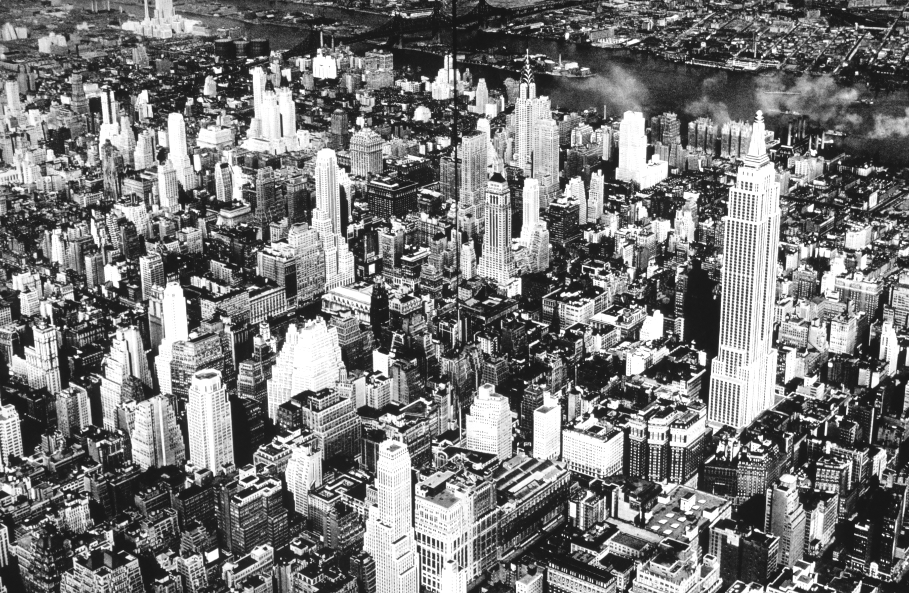 The center of New York. In: "Flug und Wolken" (Flight and Clouds), Manfred Curry, Verlag F. Bruckmann, München (Munich), 1932.